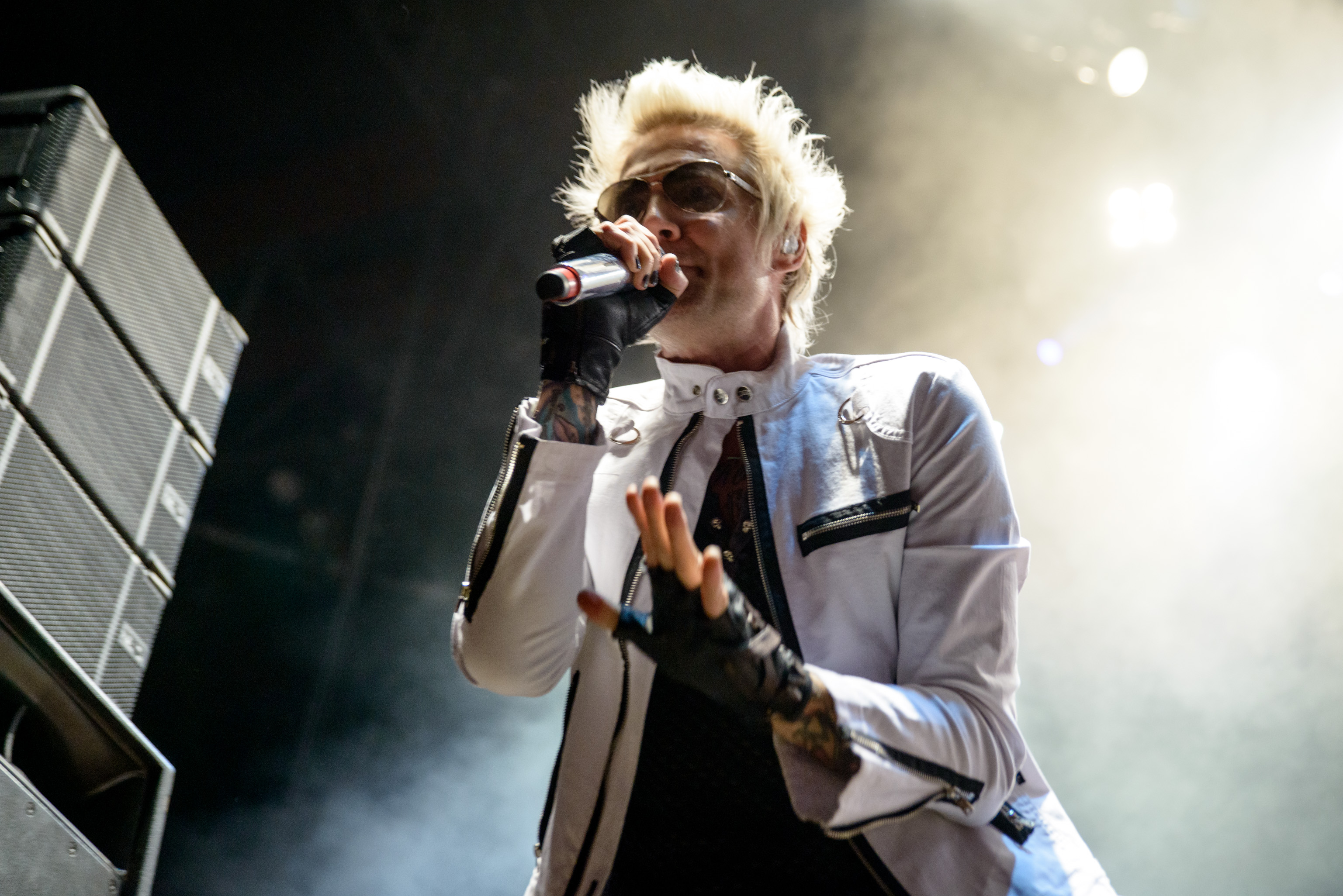 Sixx:A.M. @ Rock im Park 2016